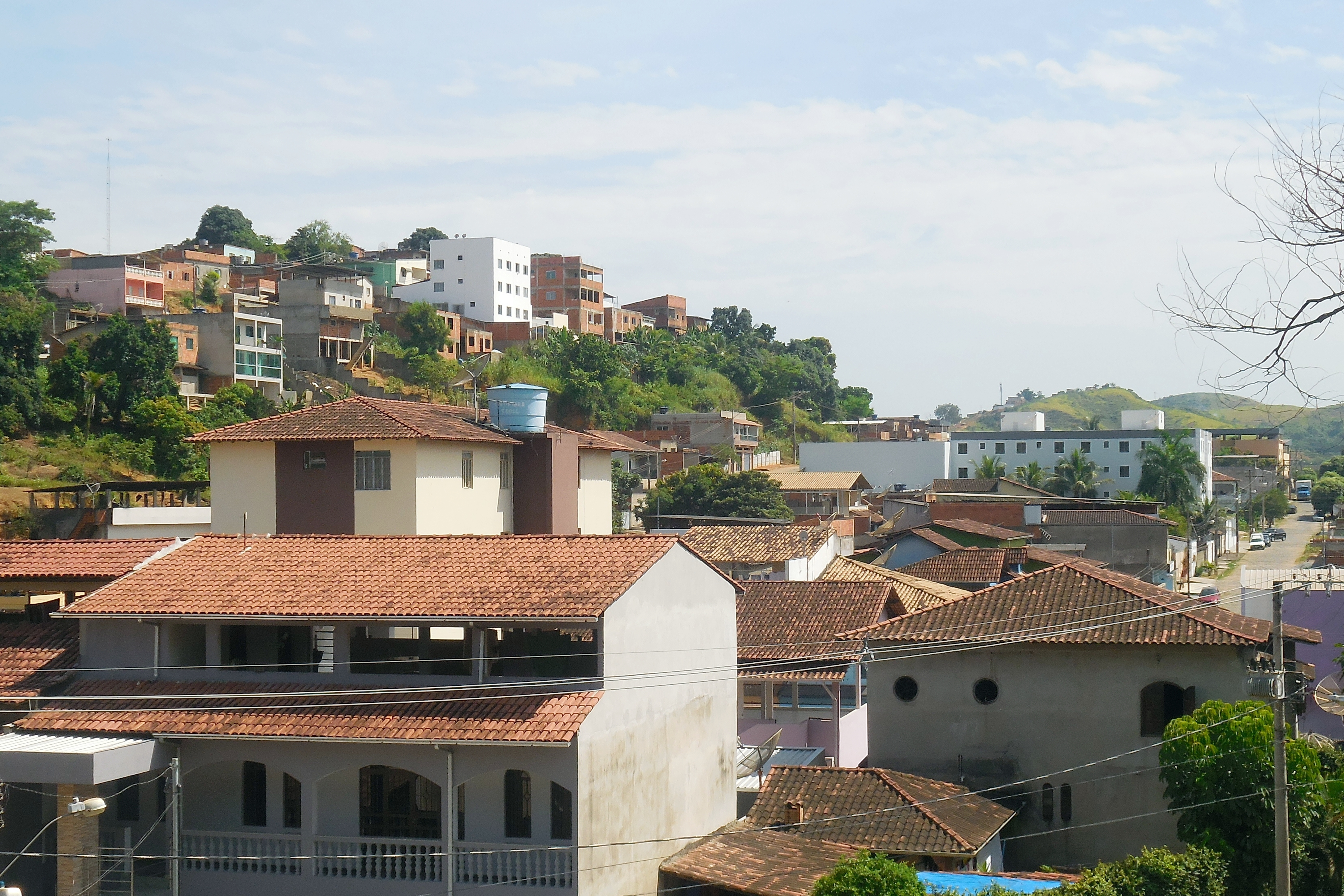 Partial view of the Alegre neighborhood, in Timóteo, Minas Gerais, Brazil.